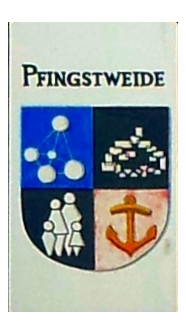 Coat of arms of Pfingstweide, district of Ludwigshafen.